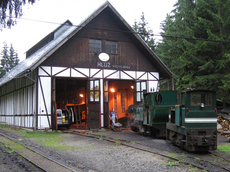 Depo of Historical Logging Back Swath Railway , Nová Bystrica (Vychylovka)